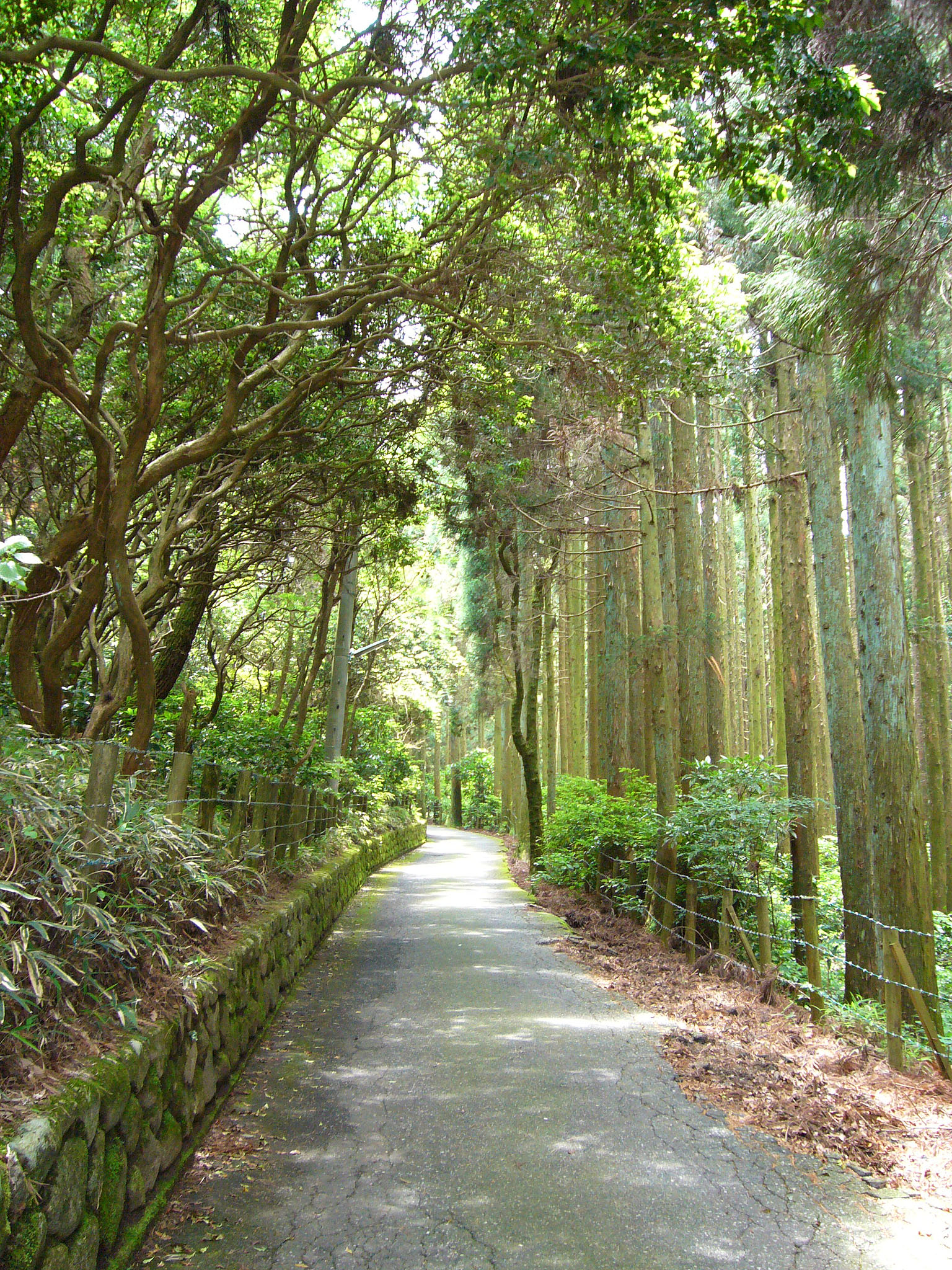 at Mt.Rokko, Kobe, Hyogo prefecture, Japan